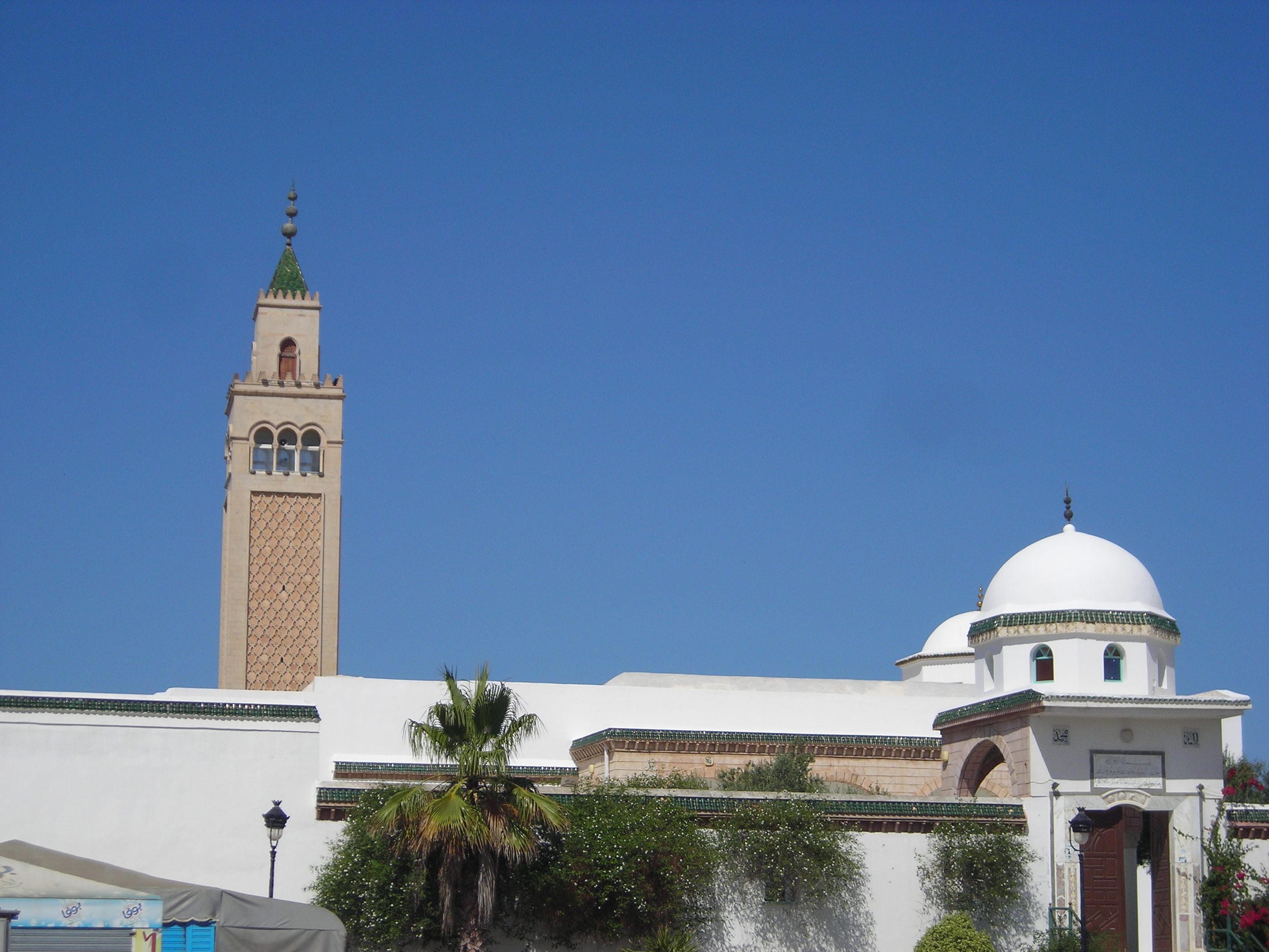 Mosque in La Marsa